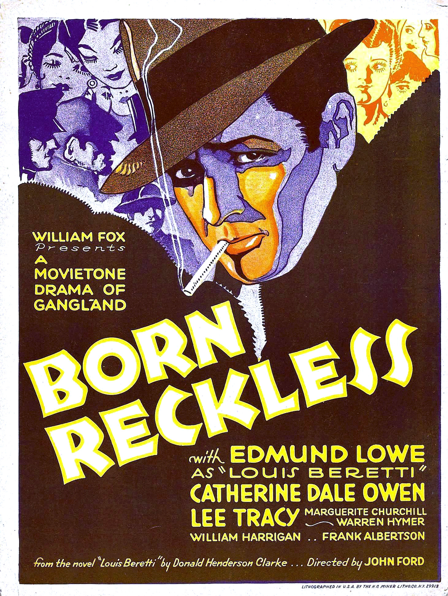 Poster for the 1930 film Born Reckless. There are no copyright marks. At bottom left is Lithographed in USA by the H. C. Miner Litho Co., NY 29913, which appears to be a print job number for the poster.